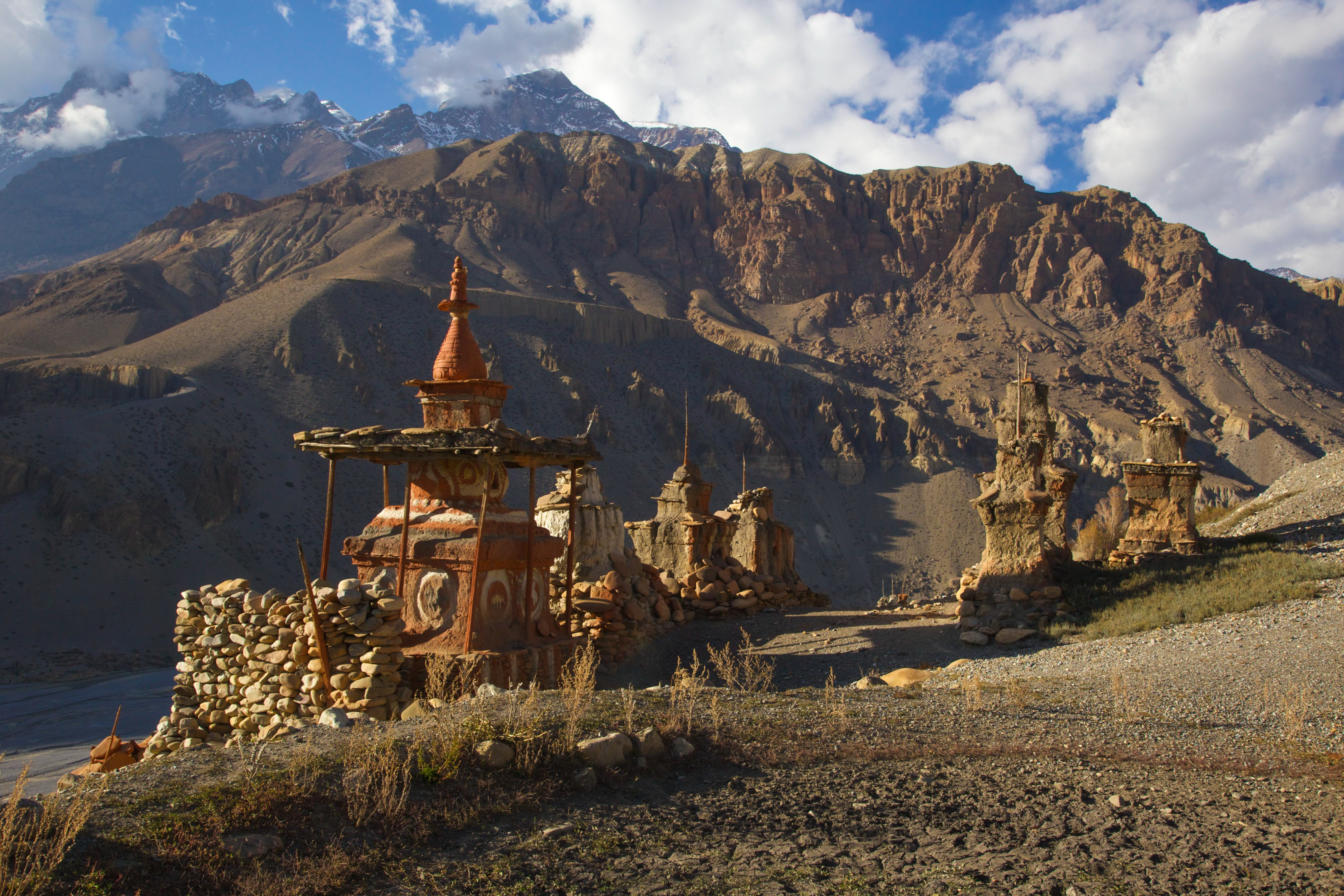 It did not take long after we entered in Upper Mustang before we discovered our first large chorten decorated with playful red and white clay colors so typical of Mustang. This chorten was standing with clusters of other structures and ruins high above the Kali Gandaki river in Tangbe. Its bulged dome was protected by a roof supported by pillars which is charasteristic of Mustang and Dolpo, a neighbouring region. We discovered this group of chortens by surprise, after a walk within the narrow streets of Tangbe. This was a wonderful experience, a gift of the local spirits to welcome us in Upper Mustang.